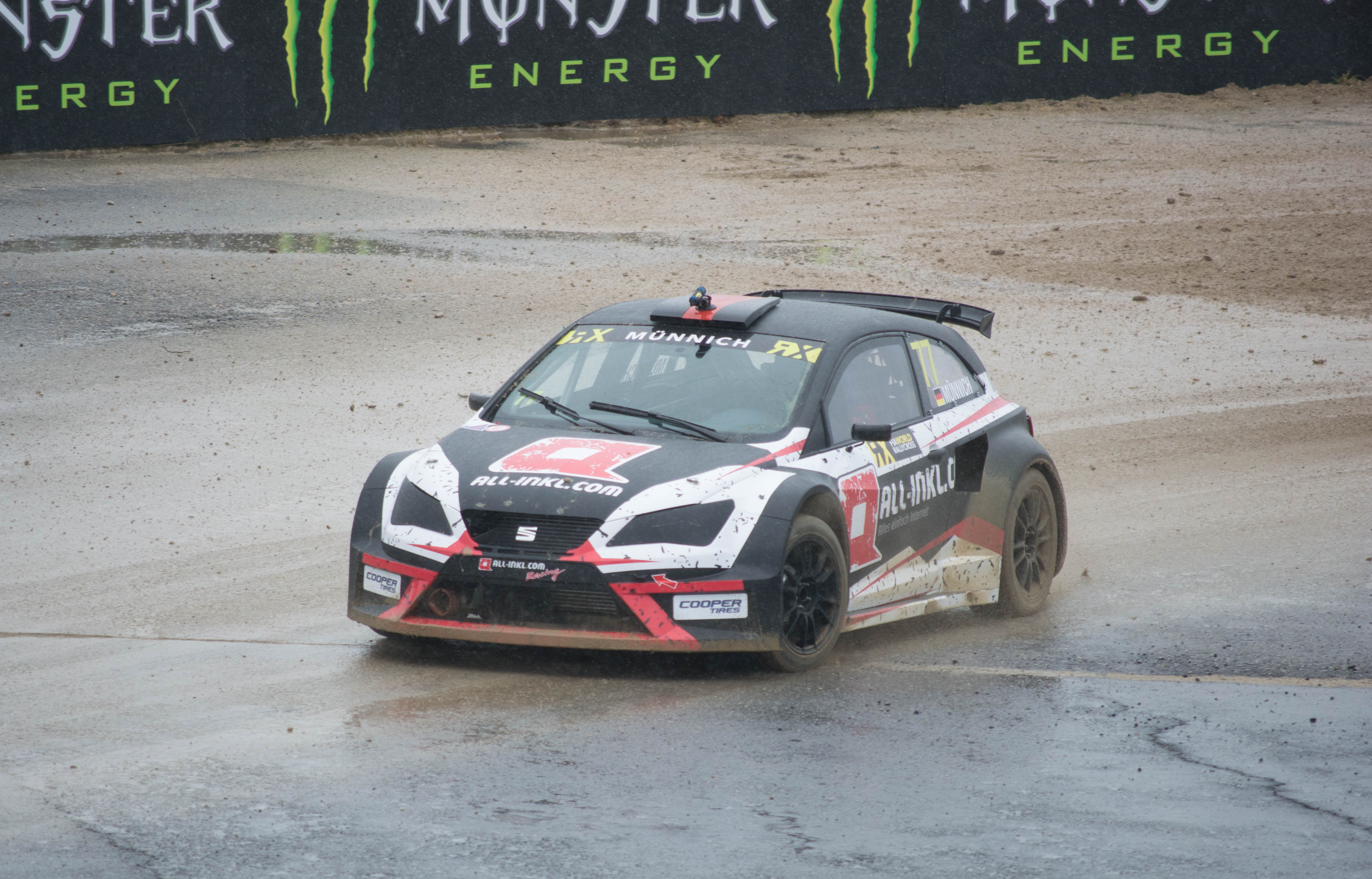 Portugal Montalegre 2016